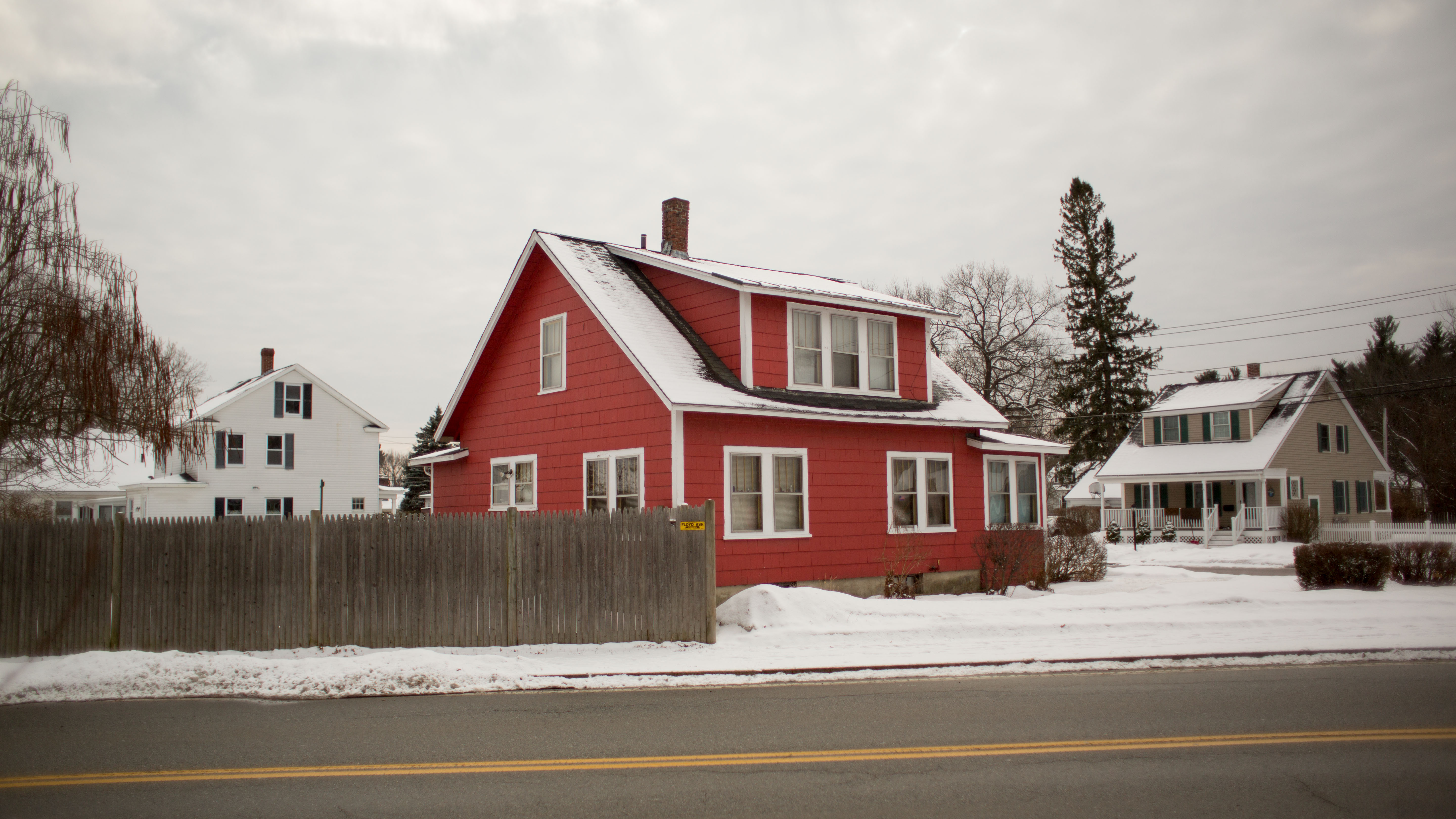 Typical houses in Chelmsford, Mass